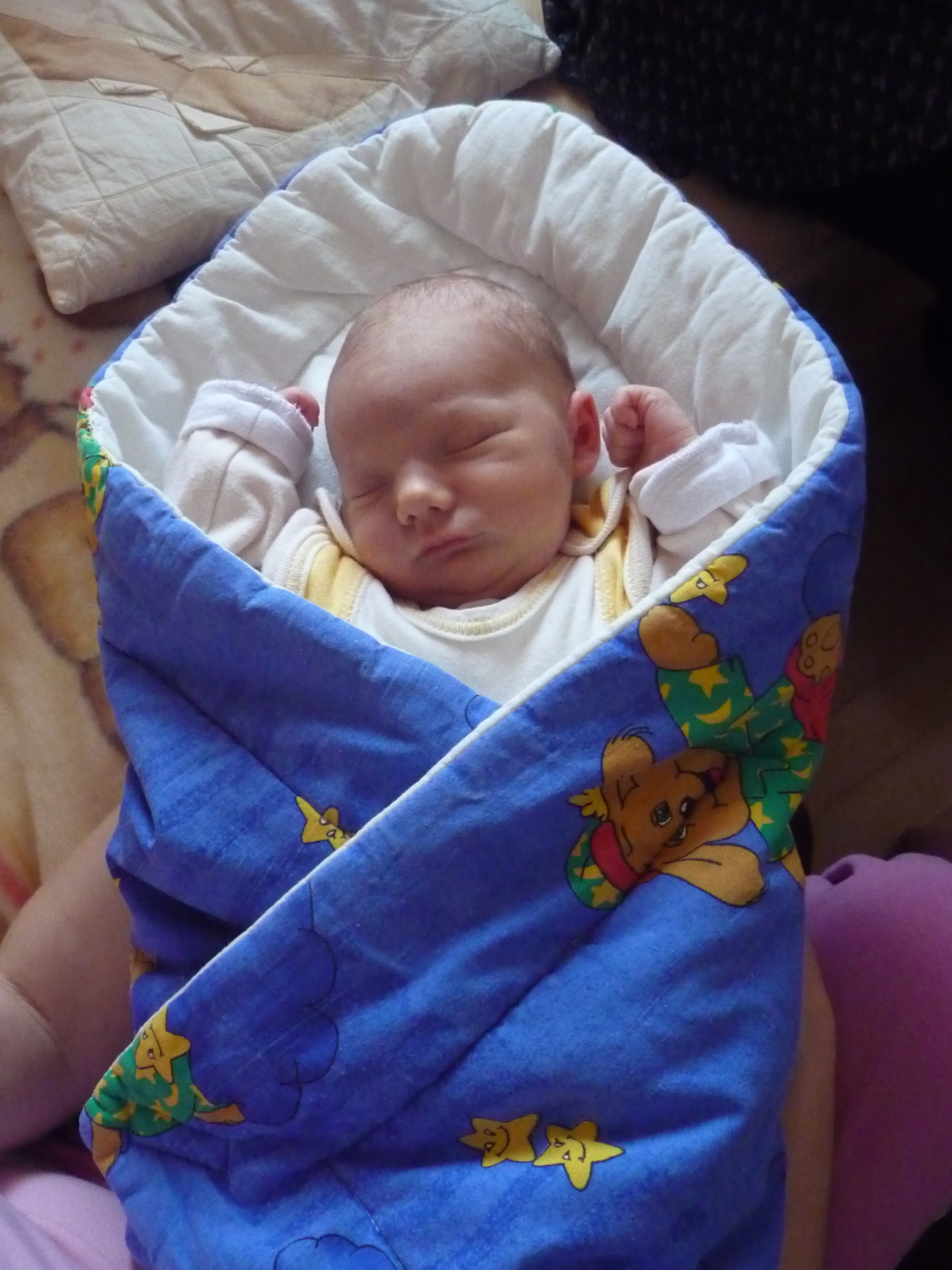 New-born Tomáš